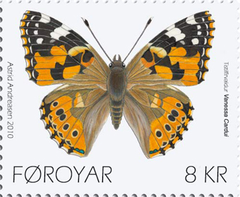 Stamp FO 682 of the Faroe Islands: Butterflies